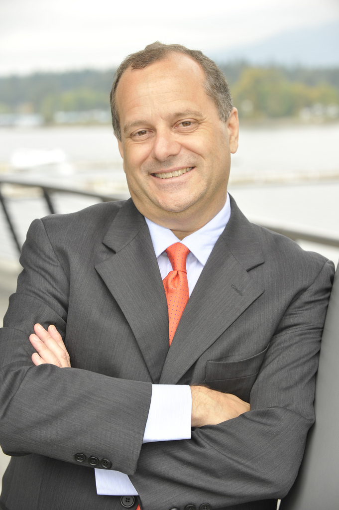 Brian Topp, leadership candidate of the NDP.